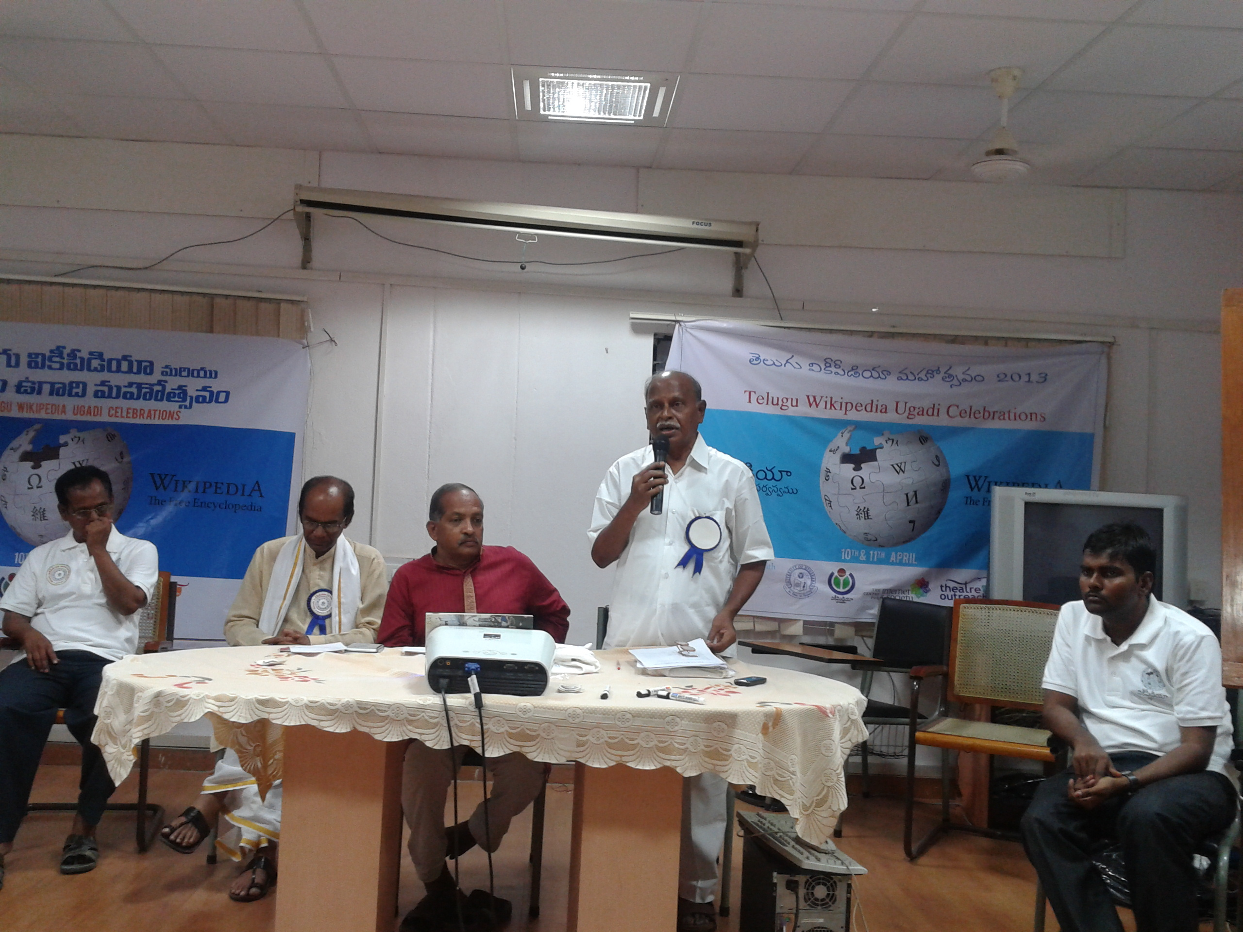 Samala Ramesh Babu sharing the steps being taken to revive Telugu language